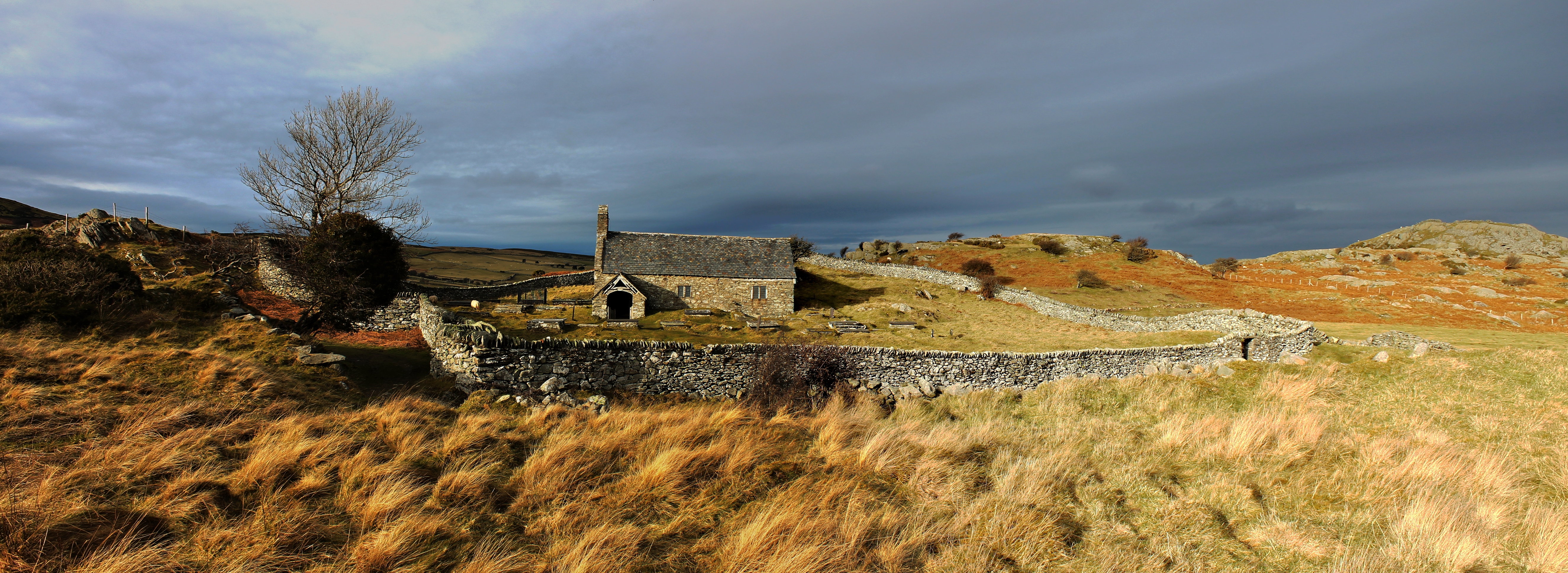 Llangelynnin Church. 12th Century, possibly one of the remotest churches in Wales (53.2458°N 3.8730°W), and is amongst the oldest. It is just over 900 feet above the village of Henryd in the Conwy valley.